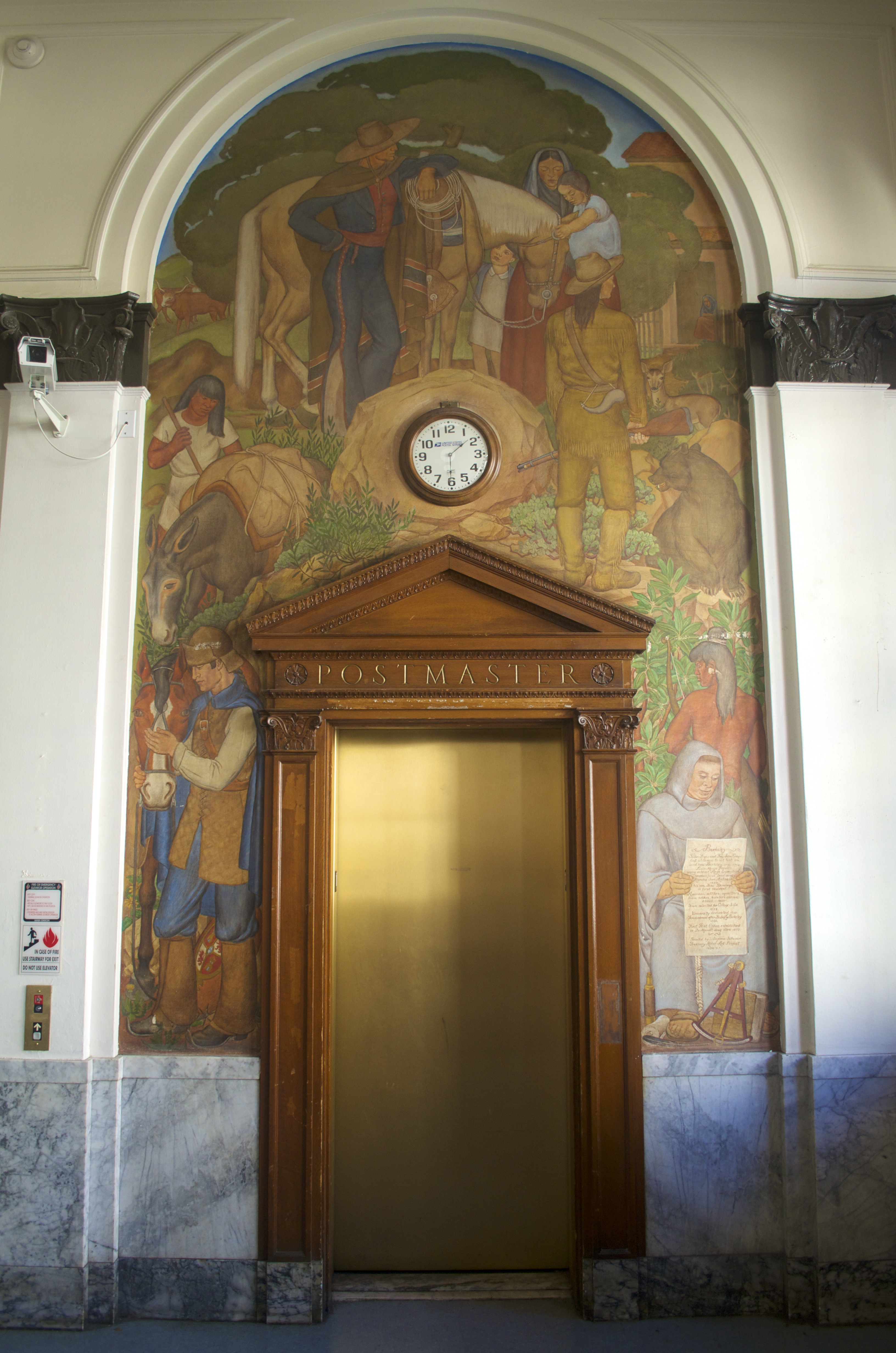 Berkeley Main Post office, interior, mural and wood work surrounding elevator entrance Mural, "Incidents in California History" (1937) by Suzanne Scheuer